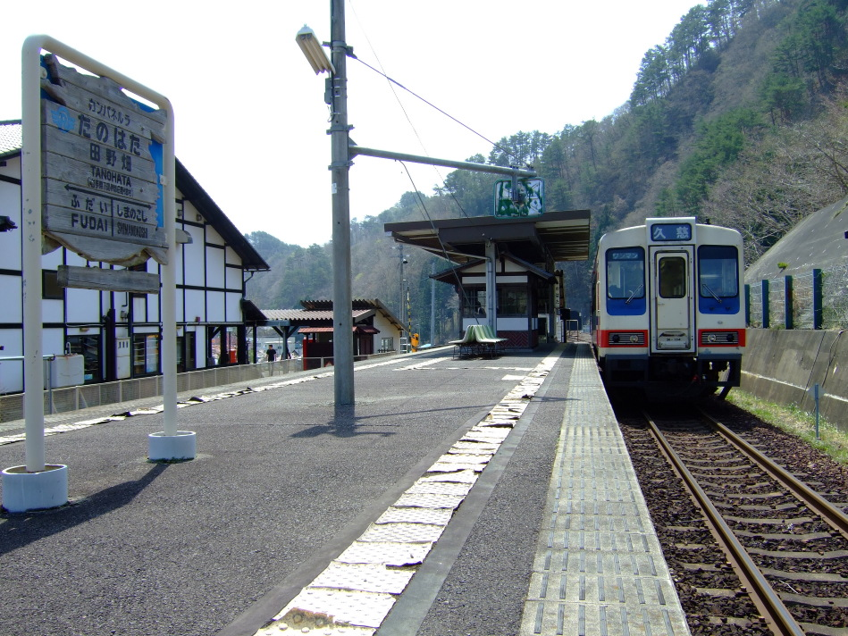 Platform at Tanohata Station of Sanriku Railway